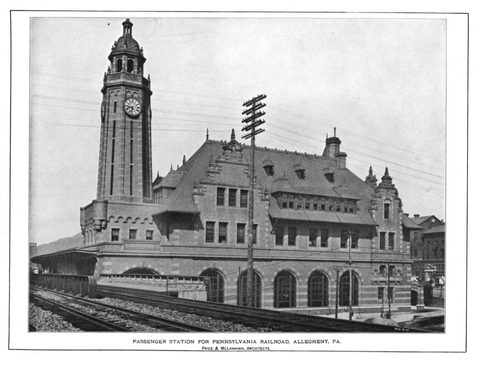 Exterior view of Federal Street Station (Pennsylvania Railroad Station), Pittsburgh, Pennsylvania. The structure was within the City of Allegheny when it opened in 1906. Demolished 1955. Architects: Price and McLanahan. There were stub-end tracks at ground level that served commuter trains, and through tracks at an elevated level that served long-distance trains. In later years, only the elevated through tracks were used.